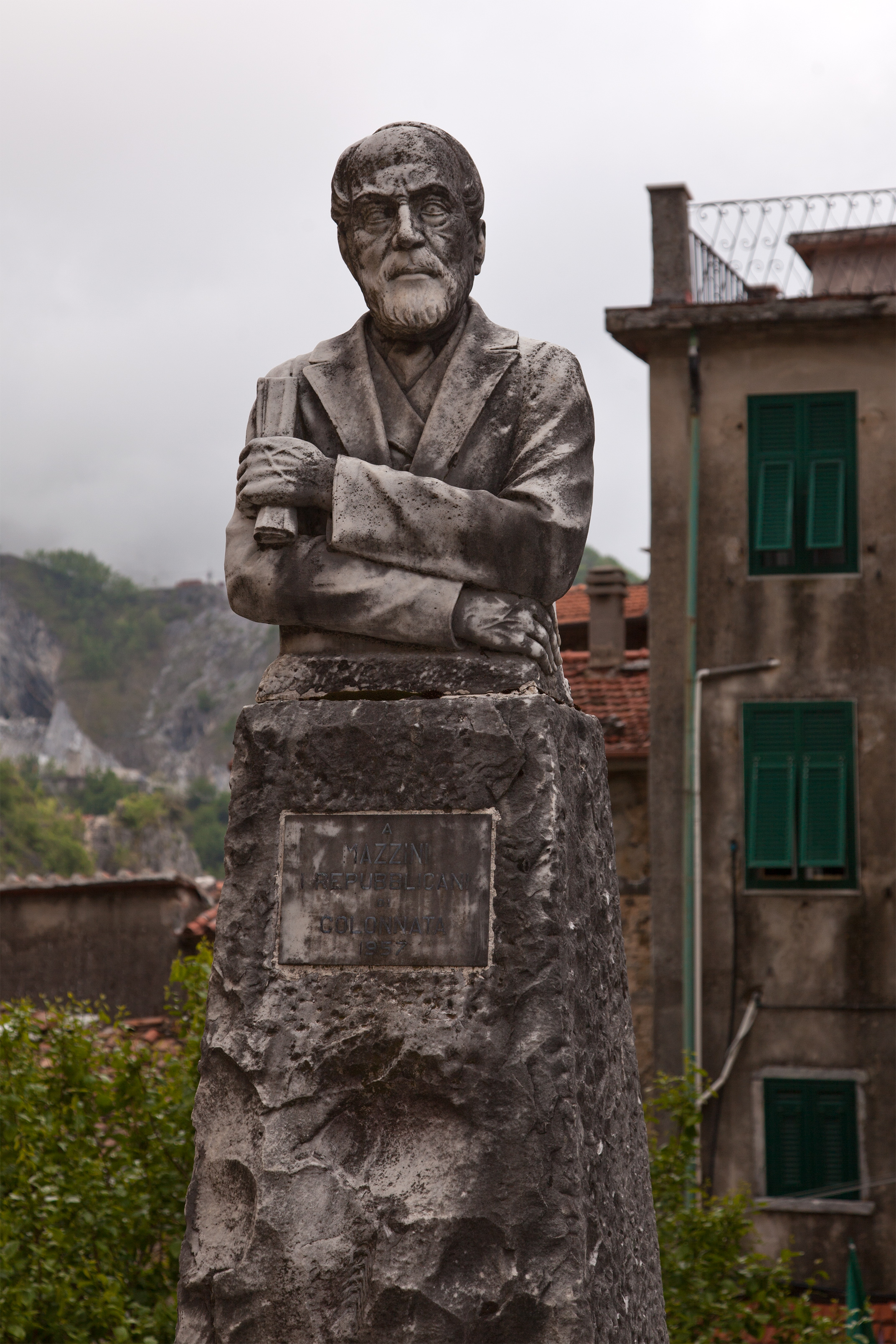 Giuseppe Mazzini, monument in Colonnata (Carrara), Tuscany